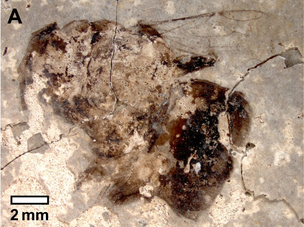 Figure 5. Protohabropoda pauli gen. nov. sp. nov. A. General habitus.